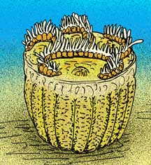 Reconstruction of the Cambrian echinoderm Camptostroma